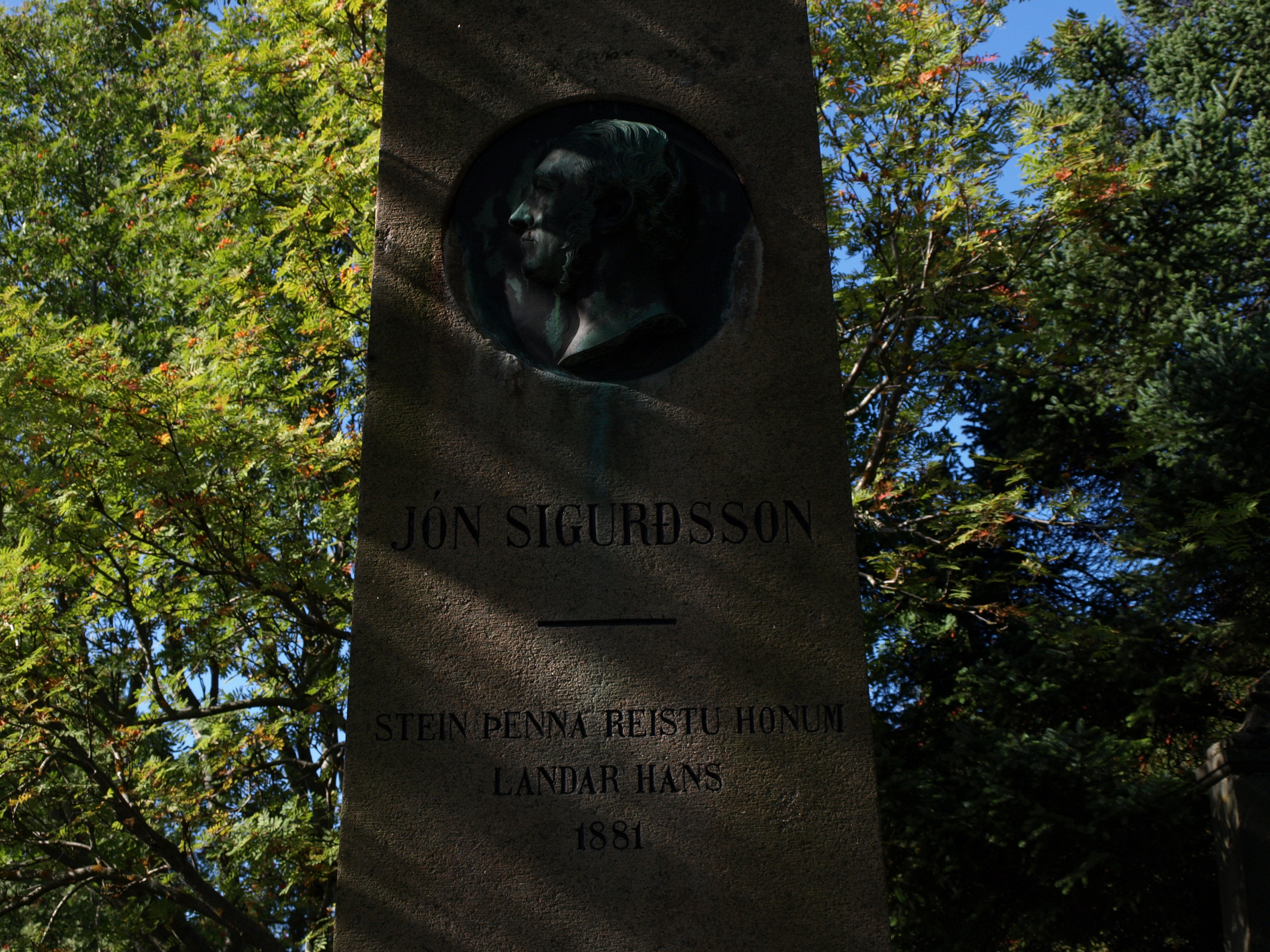 The tomb of Icelander Jón Sigurðsson (1811-1879), the national independence hero, located in Hólavallakirkjugarður in Reykjavík, Iceland.